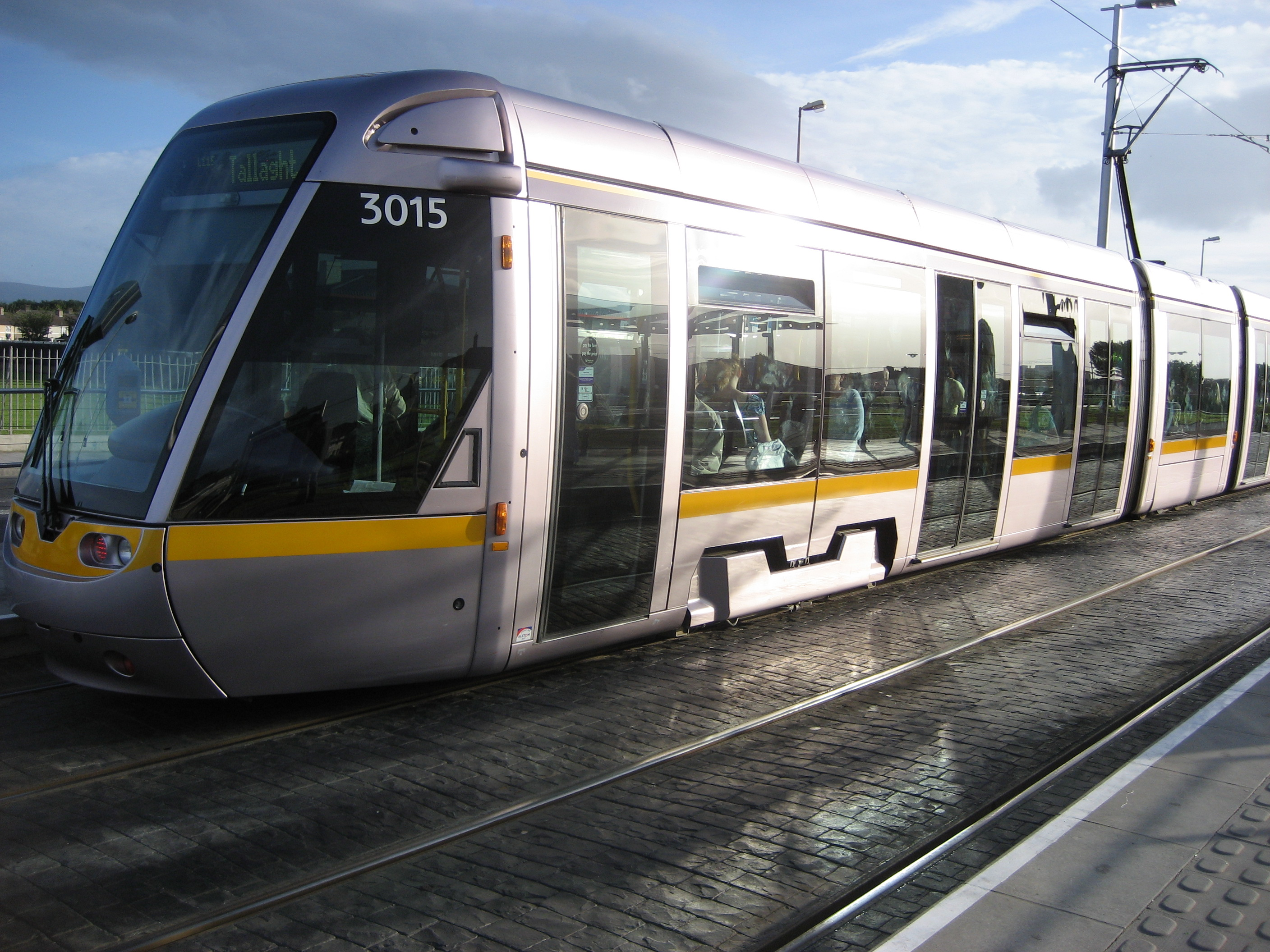 A Dublin tram